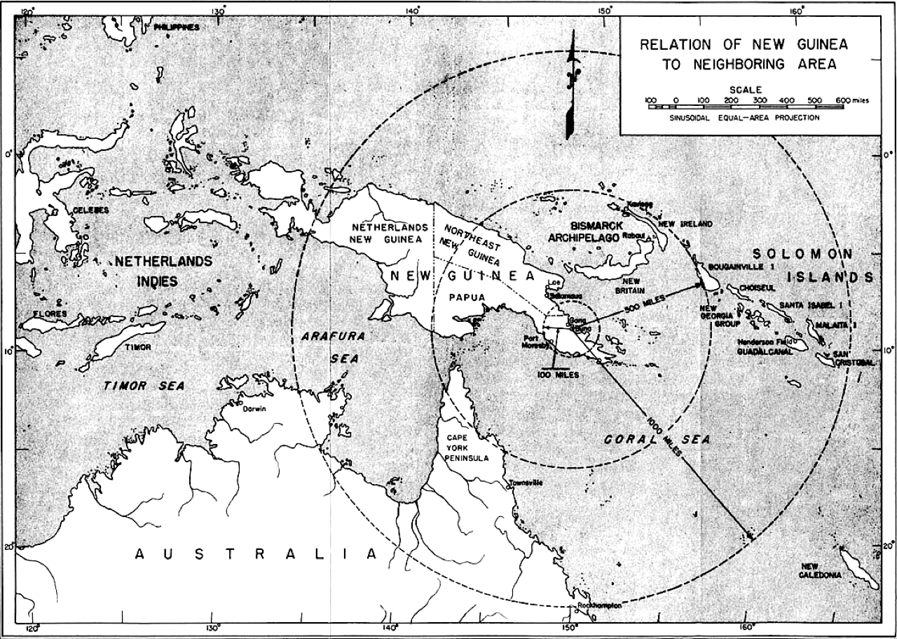 Relation of New Guinea to Neighboring Area, from PAPUAN CAMPAIGN The Buna-Sanananda Operation 16 November 1942 - 23 January 1943—Map 1